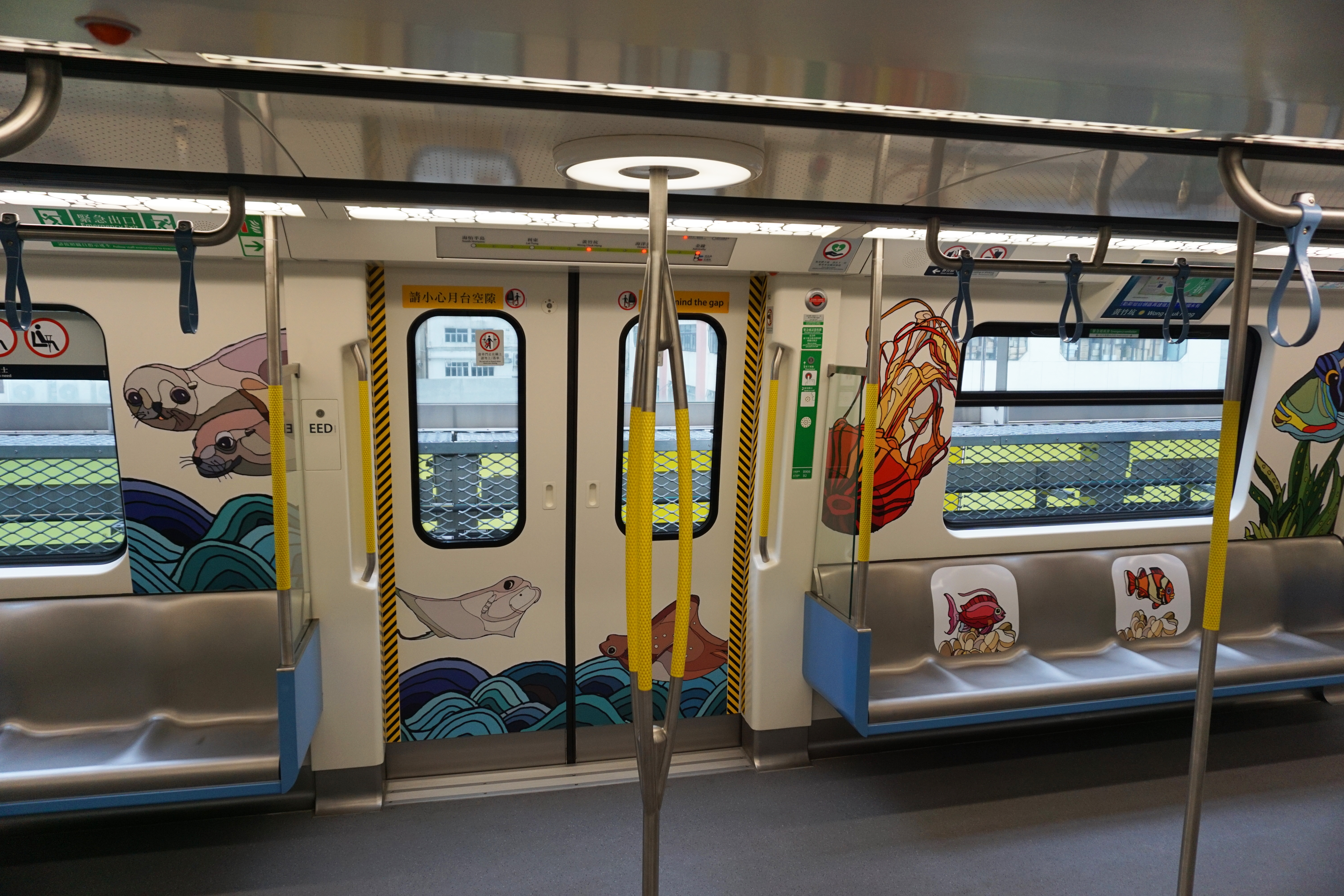 South Island Line in Southern District, Hong Kong.